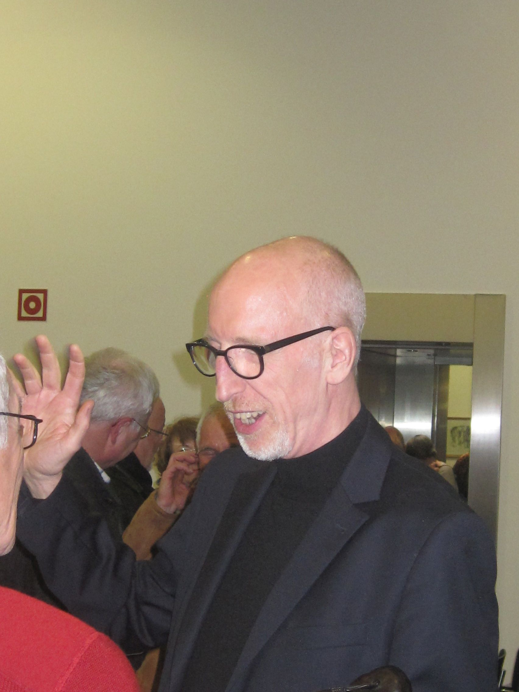 German artist and art professor Johannes Heisig.